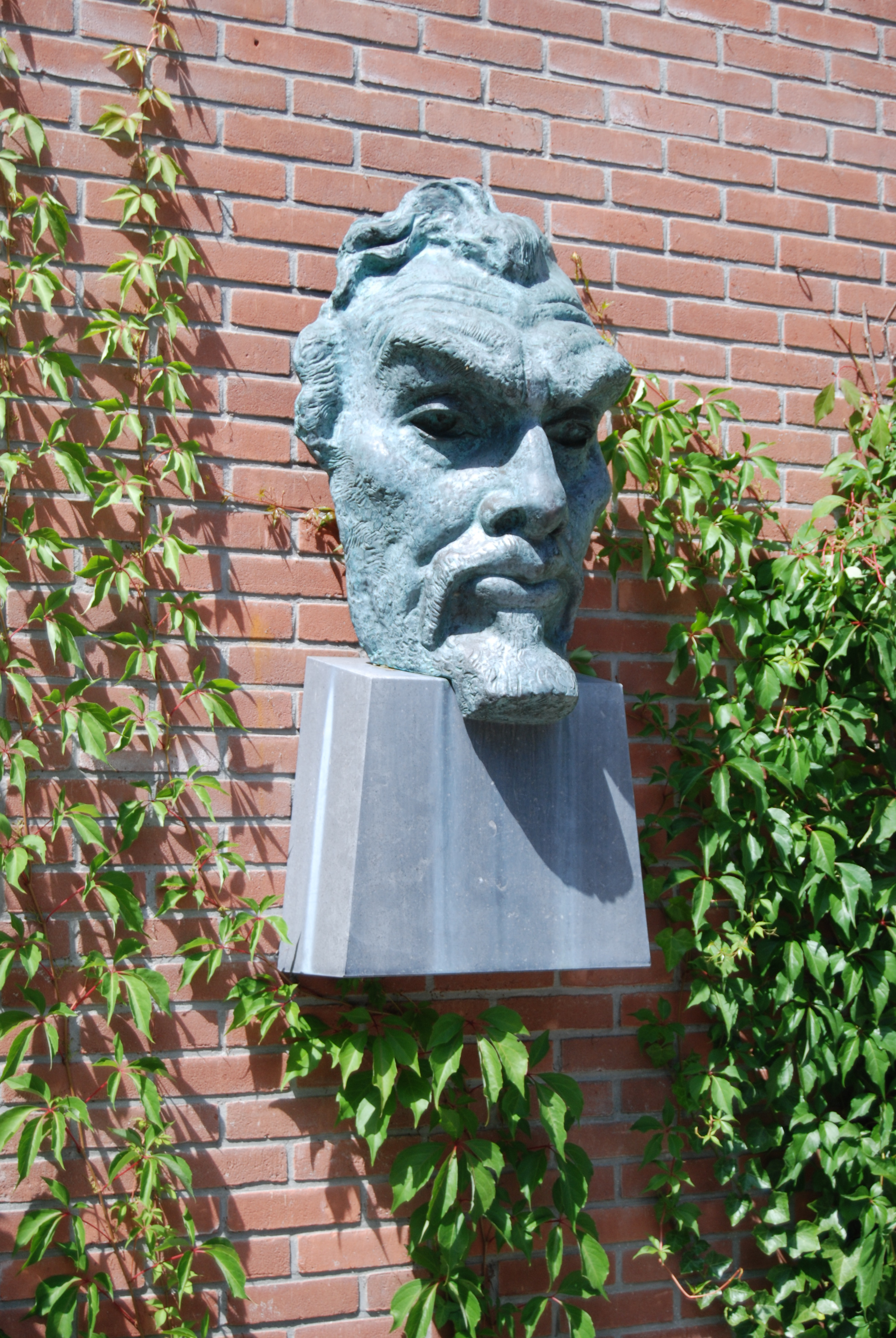 Jan Toorop in bronze by John Rädecker. Location: Museum Kranenburgh, Bergen (NH), The Netherlands. Study for Monument Jan Toorop (1937) by John Rädecker in Den Haag The Netherlands.